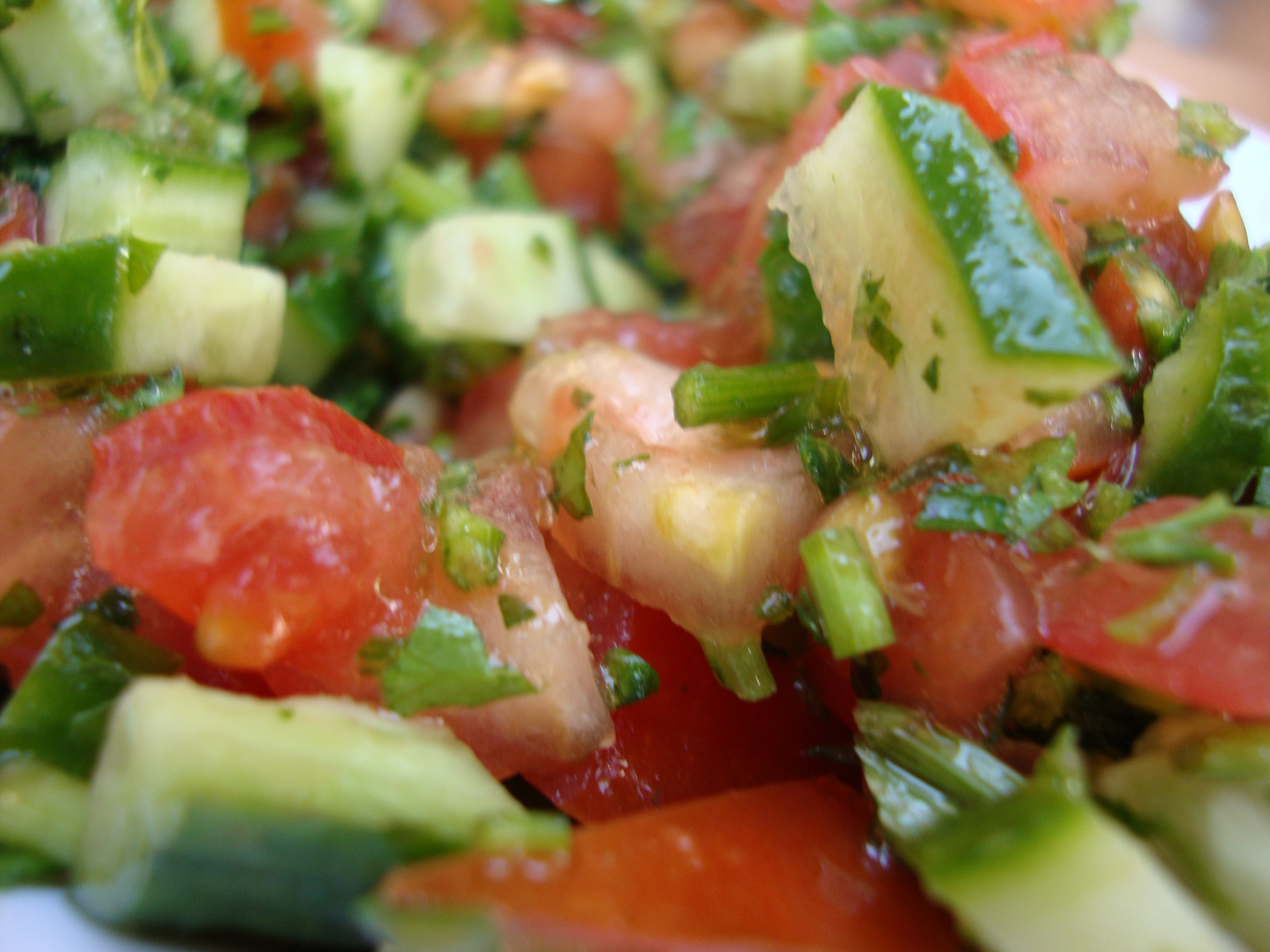 Cucumber and tomato salad, prepared in traditional Middle-Eastern manner